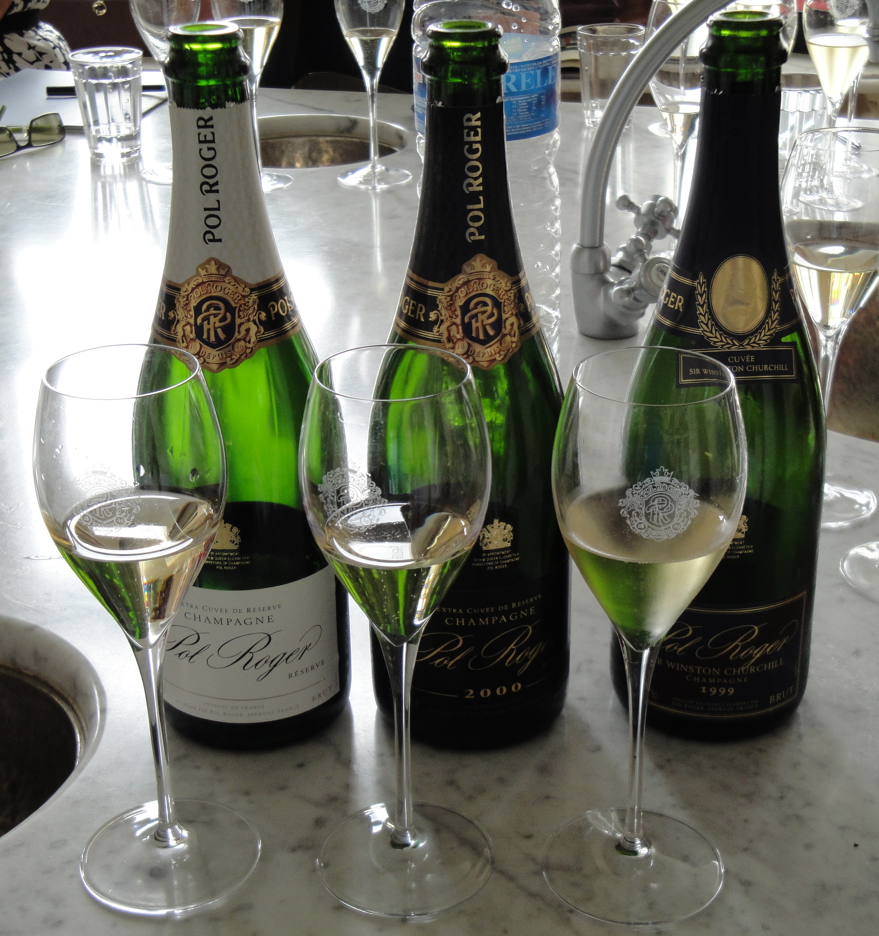 Tasting of three Champagnes from Pol Roger: Pol Roger Brut NV (Extra Cuvée de Reserve), Vintage 2000, and Cuvée Sir Winston Churchill 1999.